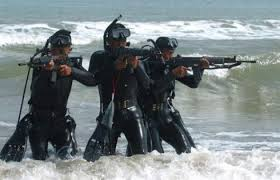 Soldiers belonging to YonTaifib Special Force of the Indonesian Marine Corps during an exercise in Melonguane, North Sulawesi.